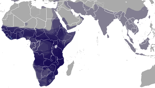 Linear dodge of the taxa of Herpestidae taxa. Darker colors indicate greater diversity.